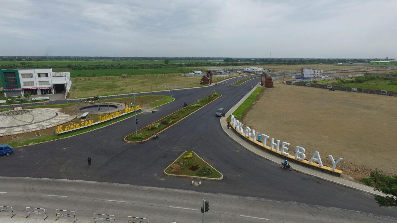 Kendal Industrial Park